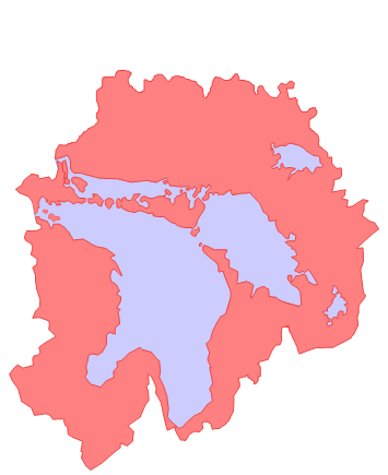 Map of the Lake Huron watershed.